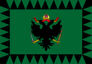 Flag of the Kingdom of Lombardy-Venetia